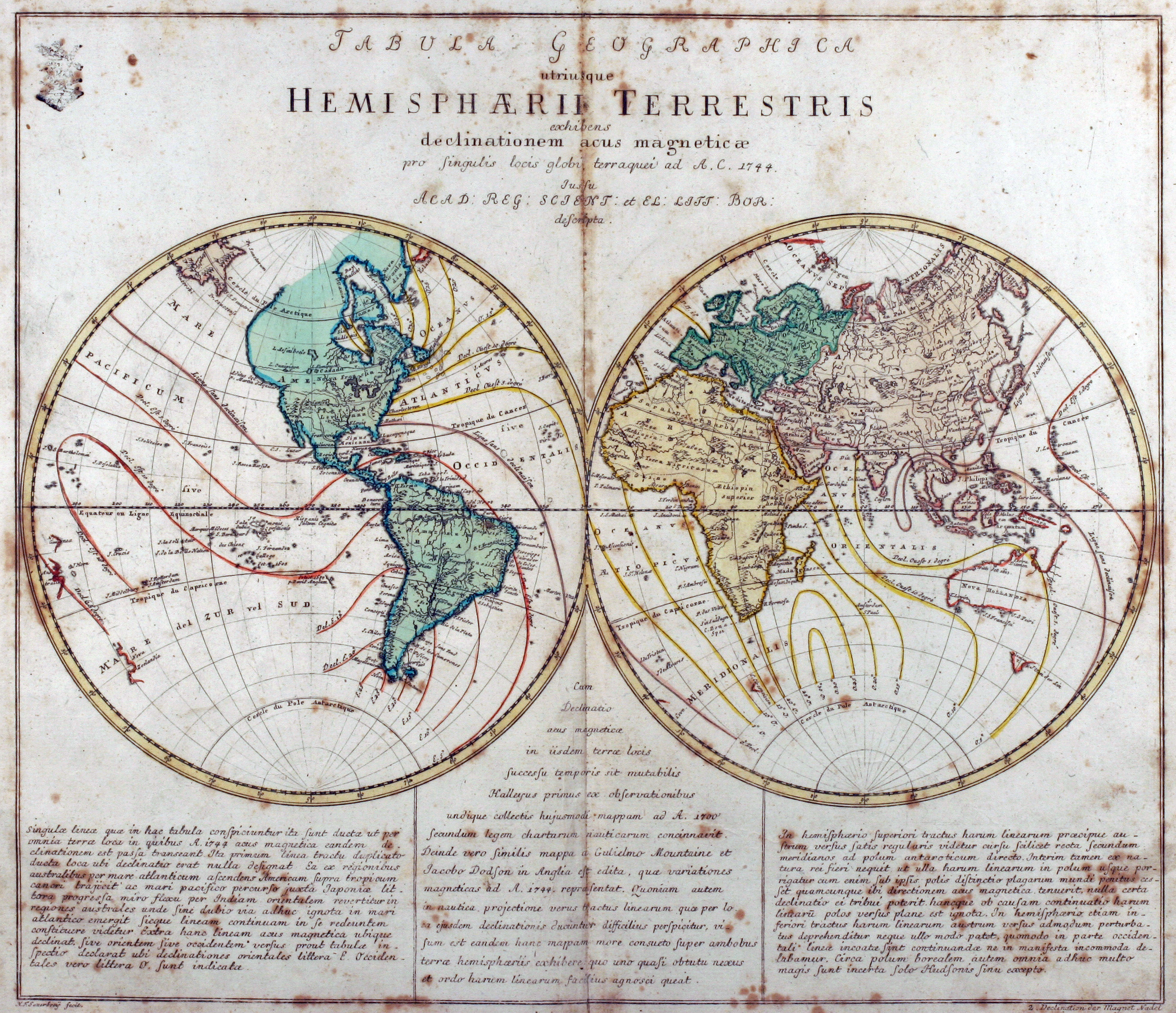 Engraved world map (including magnetic declination lines) by Leonhard Euler from his school atlas “Geographischer Atlas bestehend in 44 Land-Charten” first published 1753 in Berlin